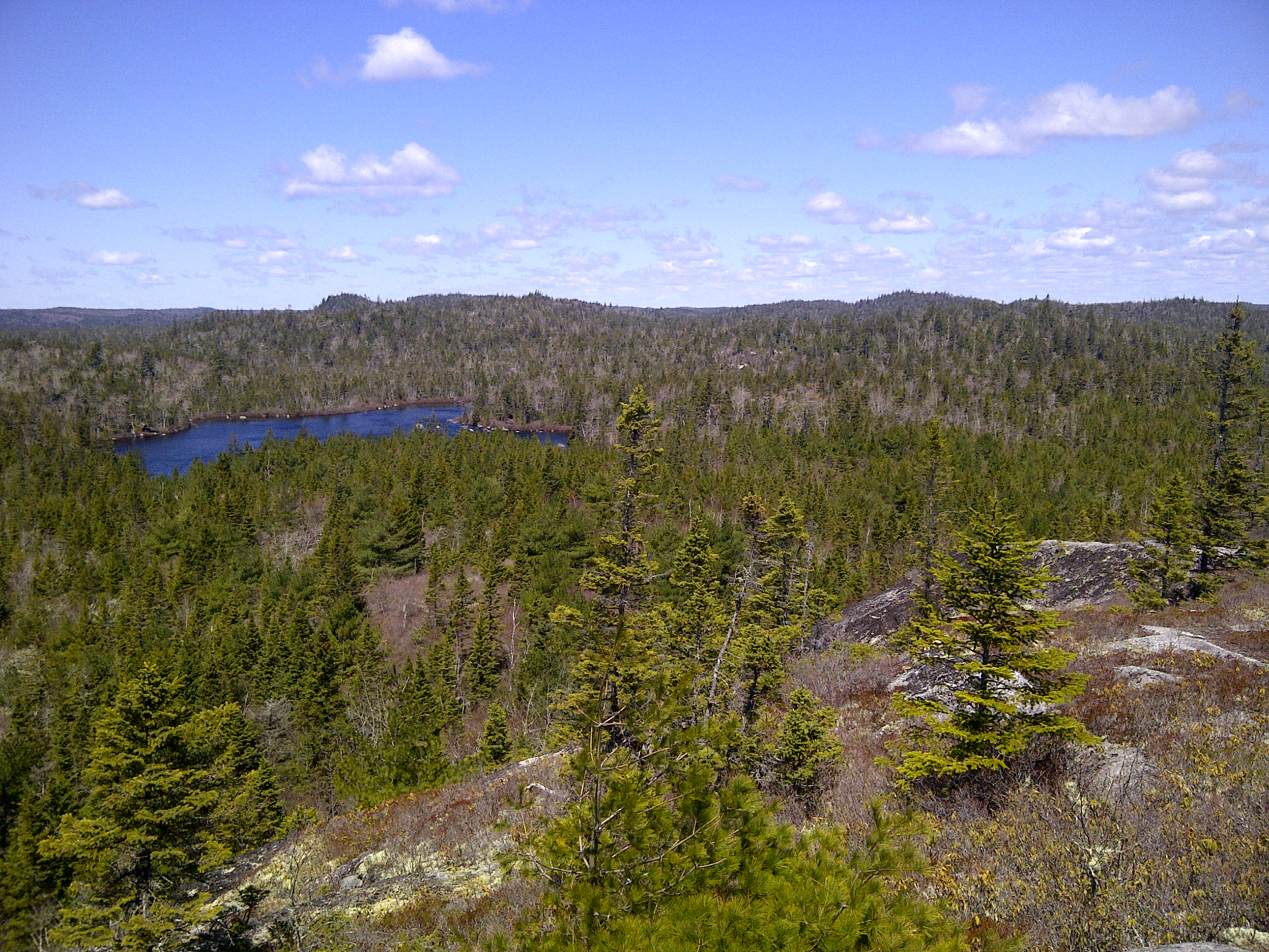 The hills, forests, and many lakes that can be seen on the Eastern Shore Granite Ridge.